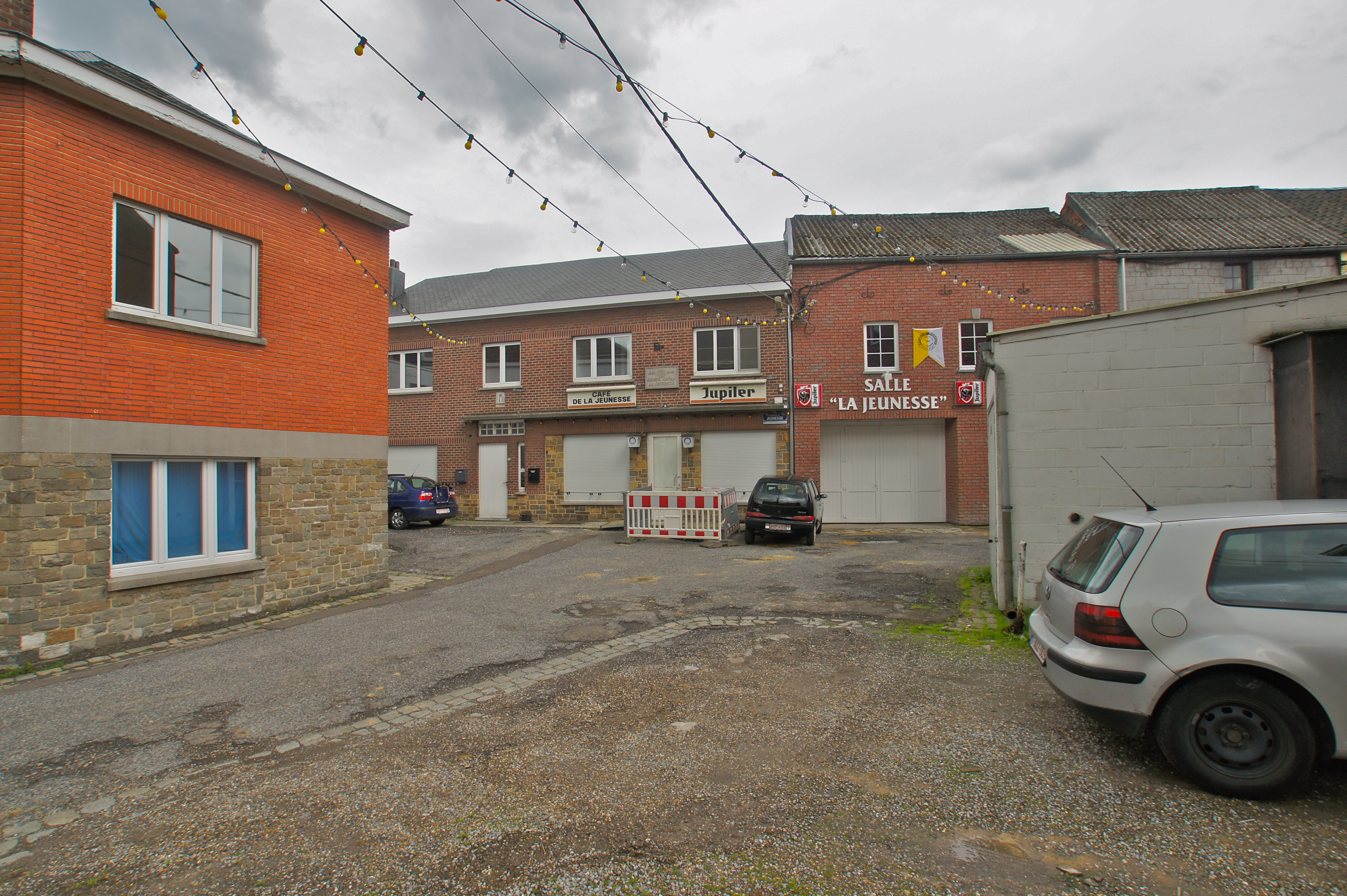 Blegny (Saint-Remy), Belgium: Youth Centre